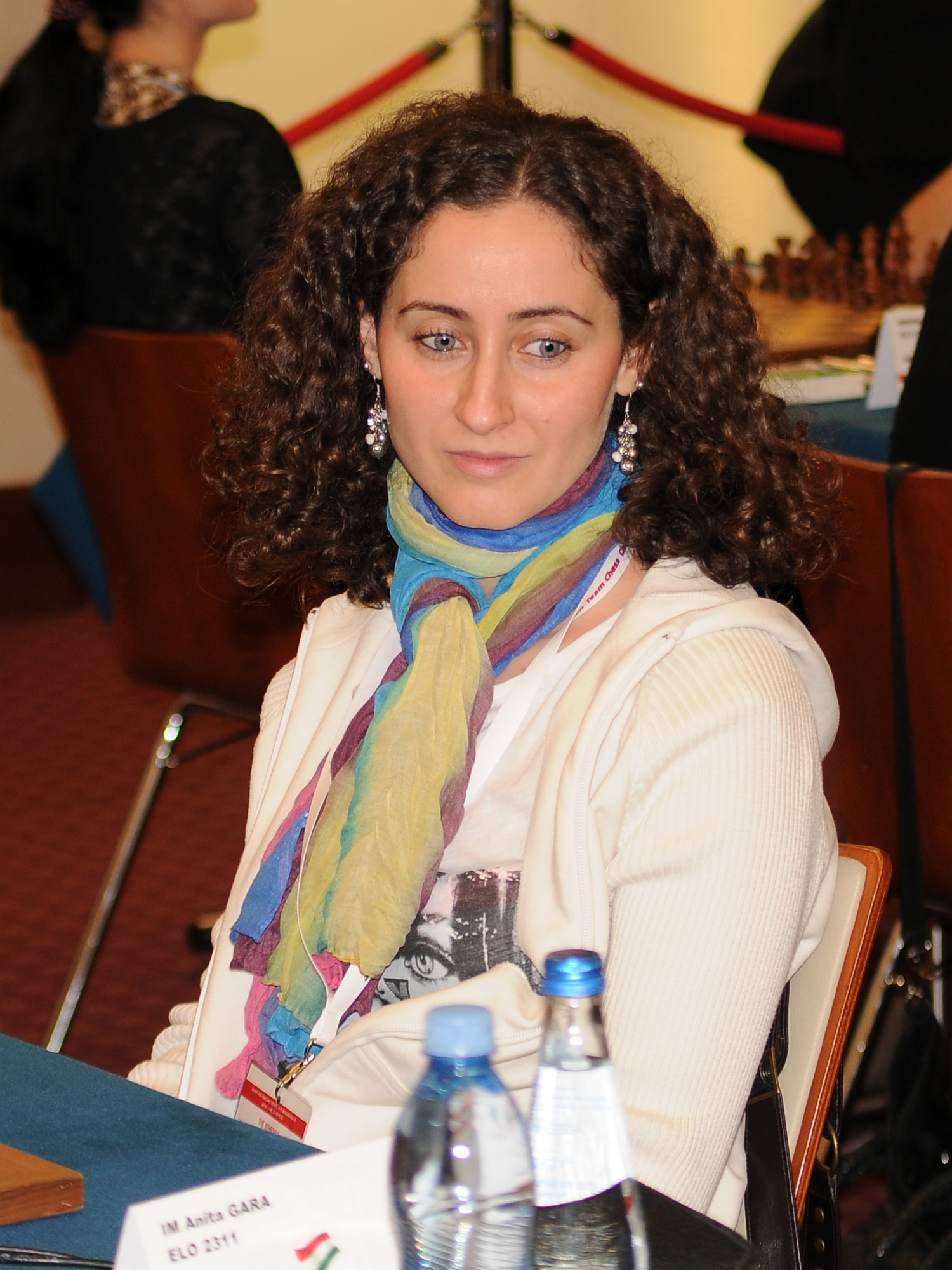 IM Anita Gara, European Chess Team Championship Warsaw 2013